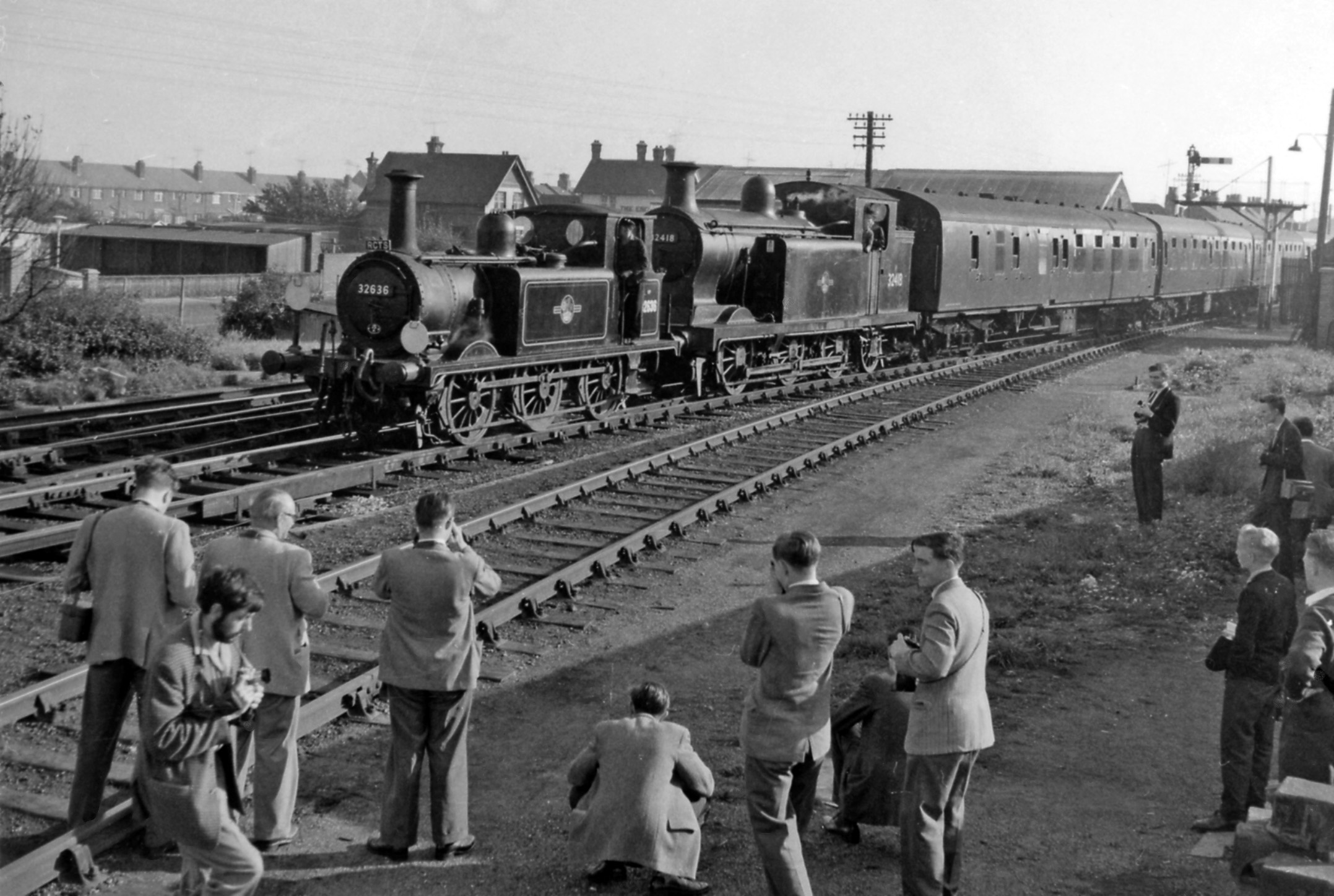 Railway Enthusiasm: the RCTS Sussex Rail Tour at Newhaven Town. The Railway Correspondence & Travel Society 'Sussex Rail Tour' train, with its A1X 0-6-0T No. 32636 and E6 0-6-2T 32418, is pulling into Newhaven Town station to pick up the tour passengers after they had visited the Shed. (See TQ4401 : Newhaven Locomotive Depot with ex-LB&SC 0-6-0T and 0-6-2T).